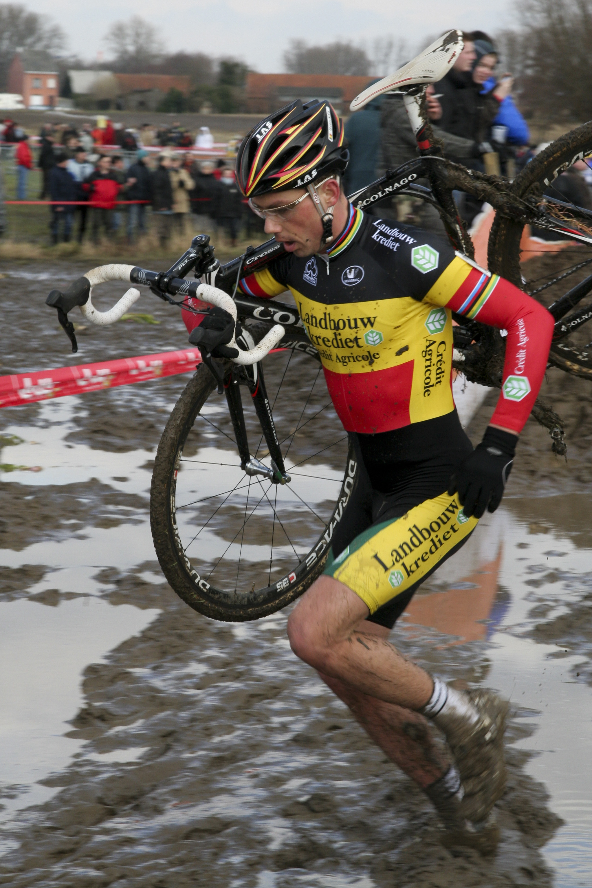 Sven Nys on 20 February 2010 in Lebbeke.